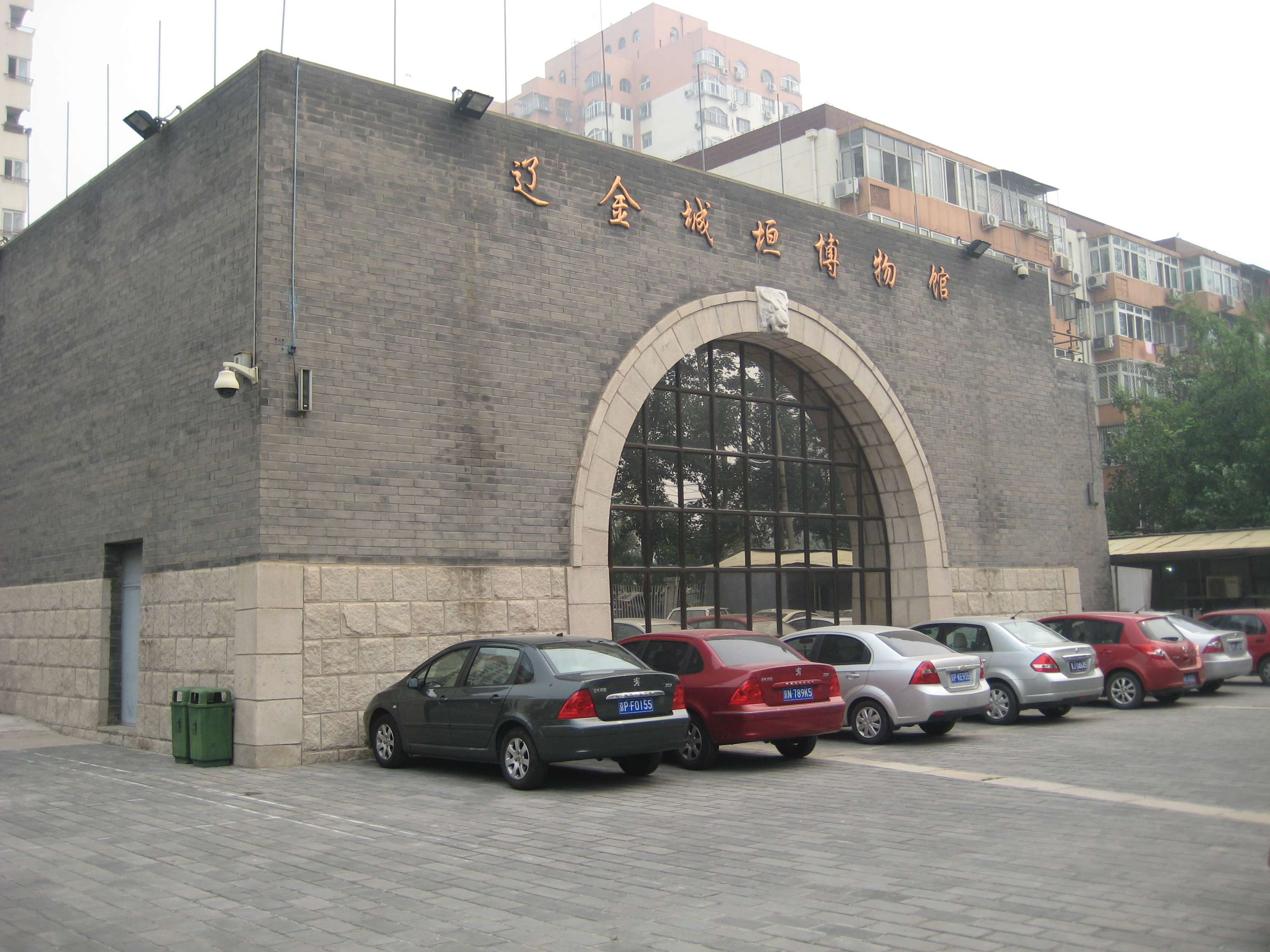 The Liao and Jin City Wall Museum in Beijing. The museum is built over an excavated water gate through the Liao/Jin city wall, and has a collection of artefacts and monumental inscriptions dating to the Liao Dynasty (916-1125) and Jin Dynasty (1115-1234).